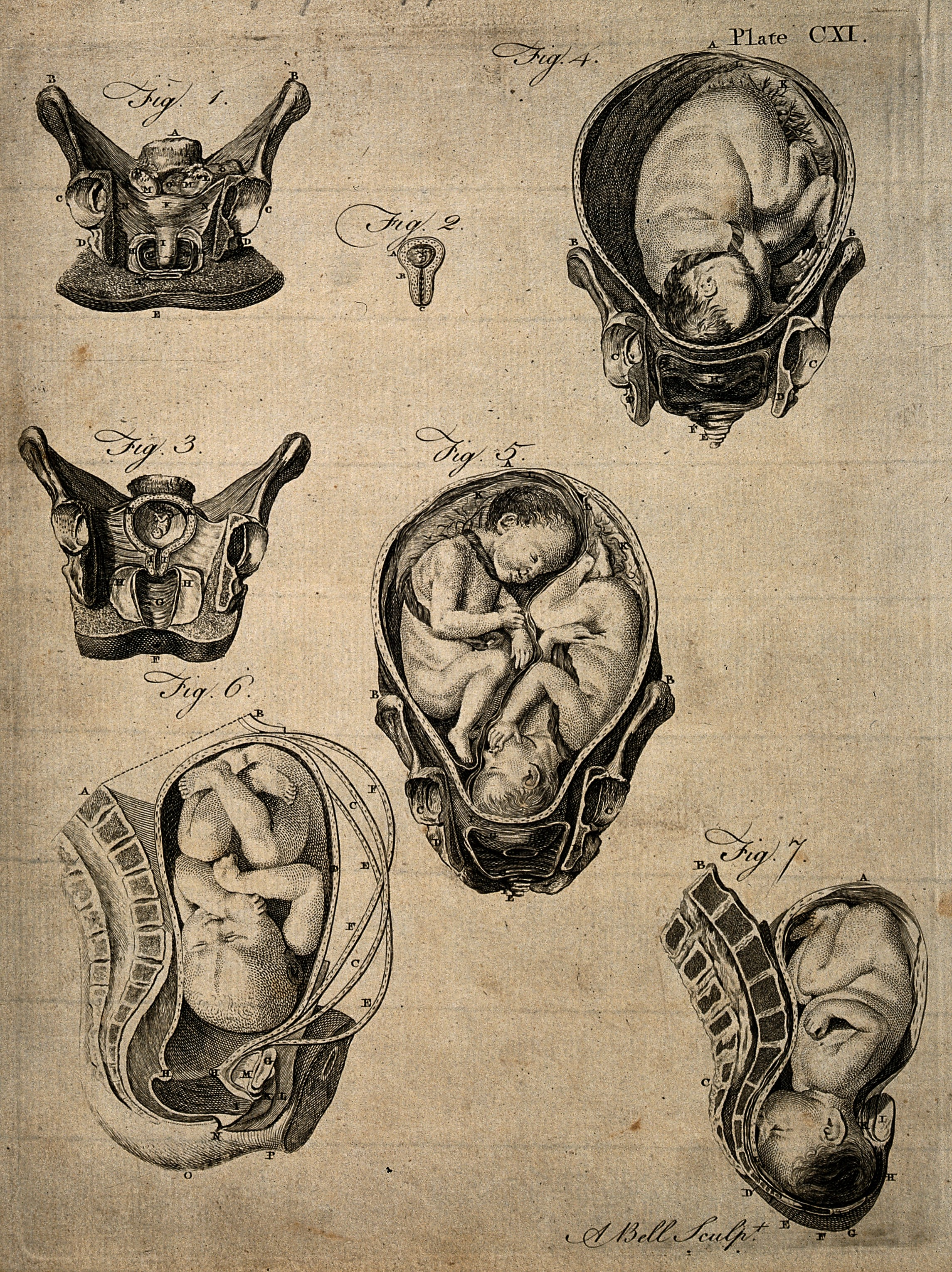 Cross-sections of seven different figures of the pregnant uterus. Engraving by A. Bell. Iconographic Collections Keywords: Andrew Bell; Obstetrics